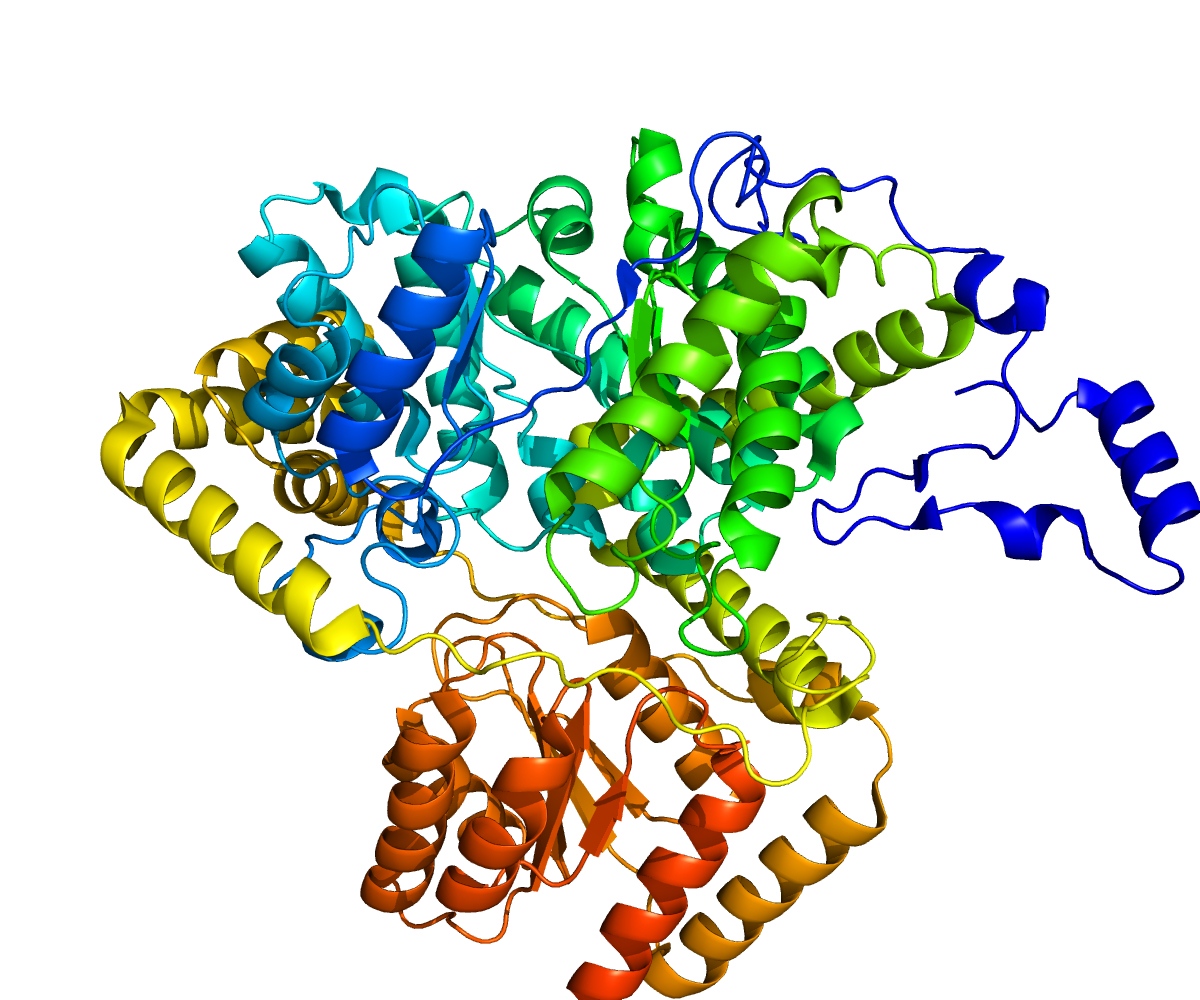 Structure of protein MUT.Based on PyMOL rendering of PDB 2XIJ.